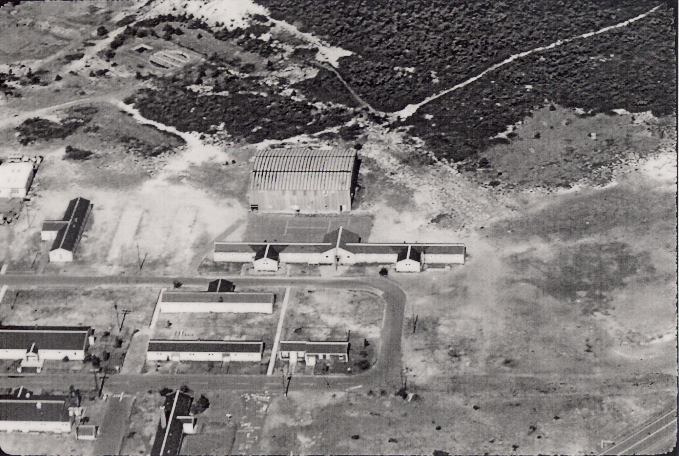 A Job Corps Training Center at the former Camp Wellfleet.